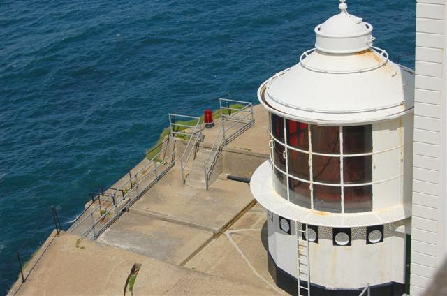 Light This is the light of the West Lighthouse, the accommodation for lighthouse staff is situated above the light, an arrangement which is unusual.